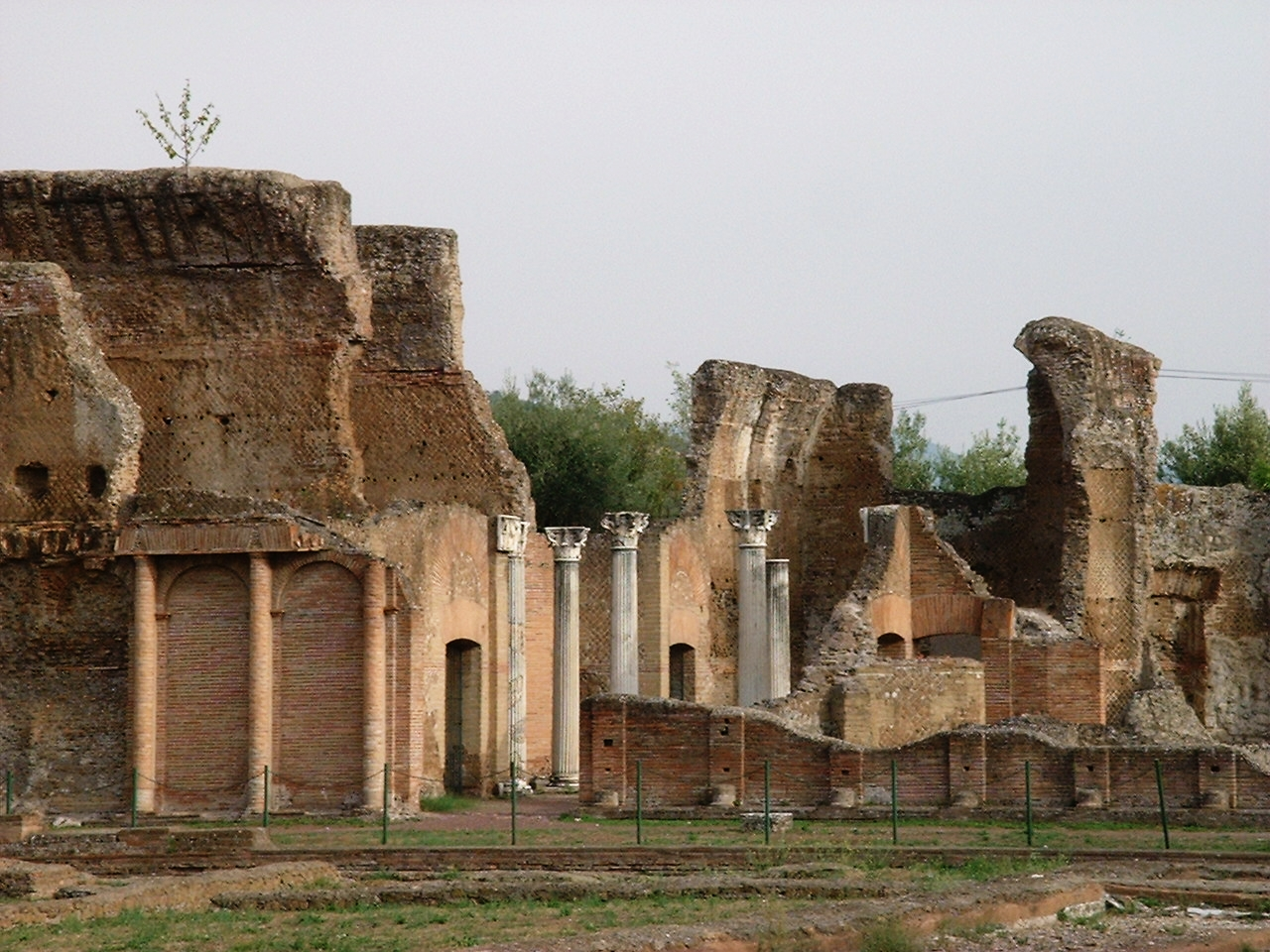 Imperial palace of the Villa Adriana, near Tivoli.